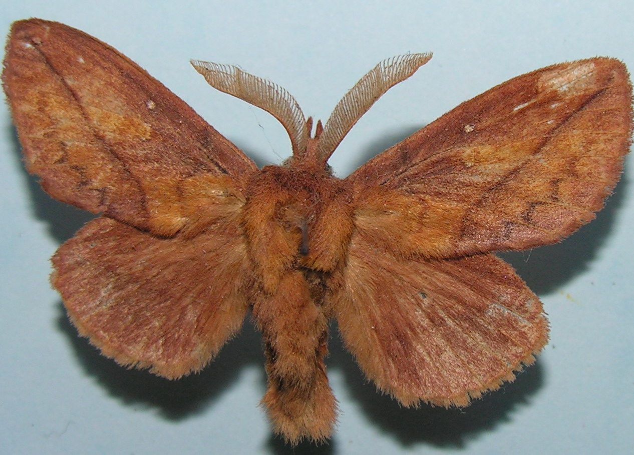 Euthrix potatoria (Linnaeus, 1758), male Many thanks to P.B.M.A. for determination!